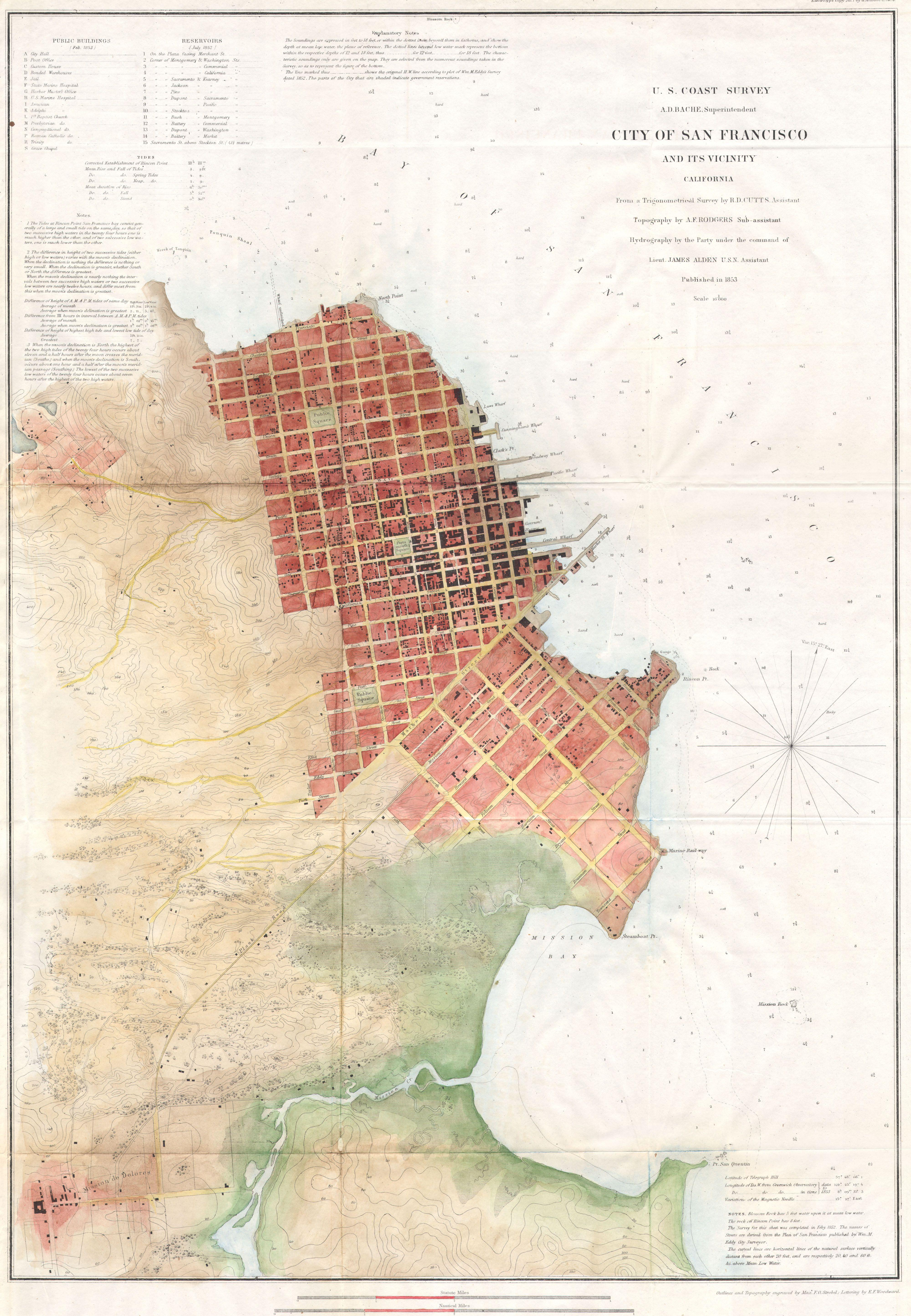 A rare coastal chart of San Francisco by the U. S. Coast Survey, 1853. Depicts the immediate city of San Francisco and surrounding areas as far as the Mission de Dolores or the Mission de San Francisco. Issued shortly following the gold rush, this early map depicts the city extending only about 8 city blocks from the waterfront. Labels piers, wharfs, parks and roads as well as indicating important individual buildings such as the City Hall, the Post Office, hospitals, and churches. The ocean areas have detailed depth soundings. Text on public buildings, reservoirs, sailing notes, shoals, and tidal notations are included on the top left and lower right hand corners of the map. This map is the second state of the 1853 edition. The first edition, in 1862 lacked depth soundings. Varies from the first 1853 state in the additional of tidal information in the upper left and corrections in the naming of the wharves and piers. Rumsey suggests that the actual city plan was taken from an earlier map produced Cook and Le Count. The interior topography comes from the Eddy map. Varies from the first state in the additional of tidal information in the upper right and corrections in the naming of the wharves and piers. The original trigonometrical survey for this map was prepared by R. D. Cutts. The topography was accomplished by A. F. Rodgers and the hydrography by James Alden. All work was produced under the supervision of A. D. Bache, one of the most influential superintendents in the history of the U.S. Coast Survey.